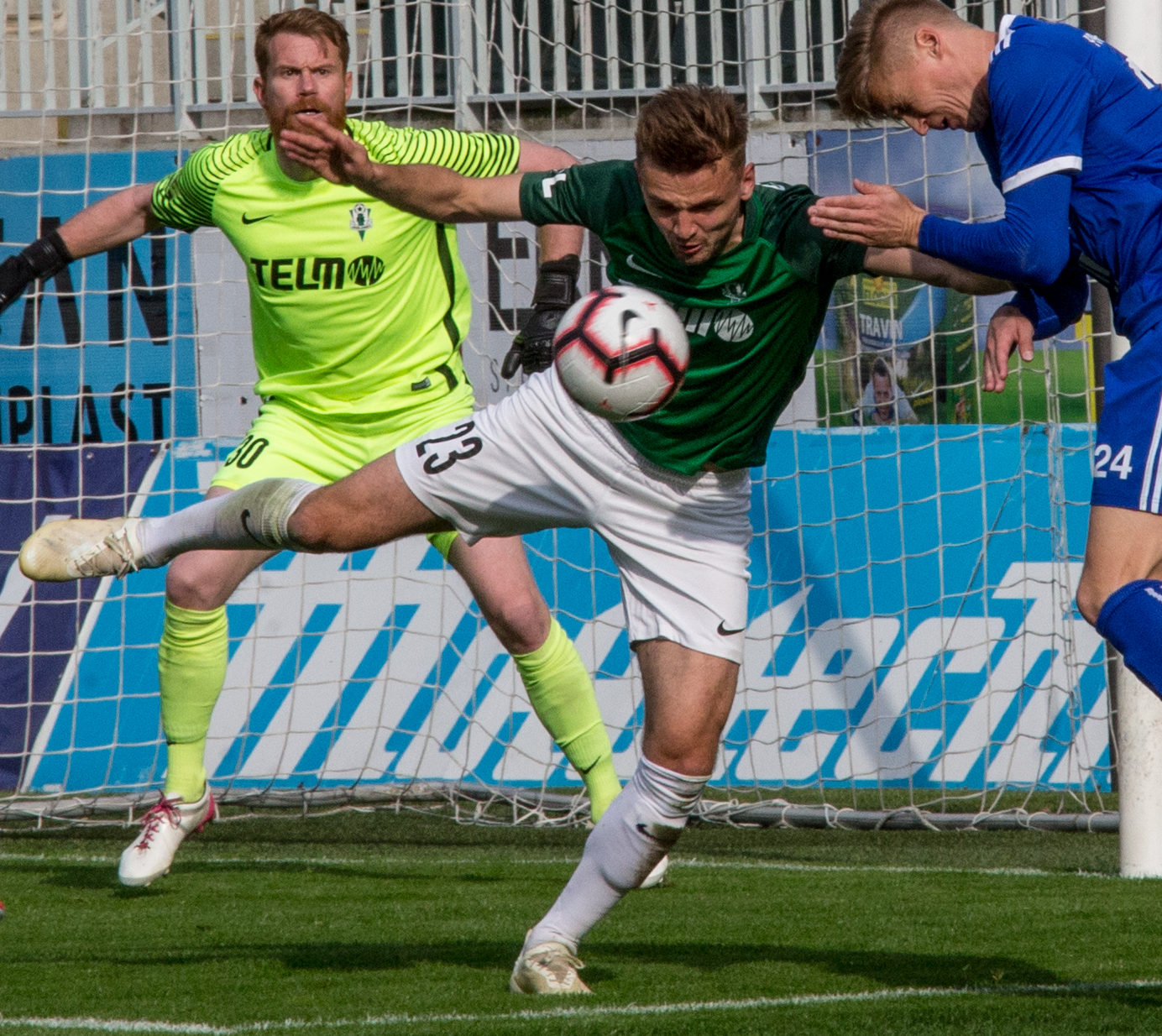 Bogdan Vatajelu, Vlastimil Hrubý a Tomáš Břečka at the Czech First League association football match with FK Jablonec v FC Baník Ostrava Personality rights warningAlthough this work is freely licensed or in the public domain, the person(s) shown may have rights that legally restrict certain re-uses unless those depicted consent to such uses. In these cases, a model release or other evidence of consent could protect you from infringement claims.